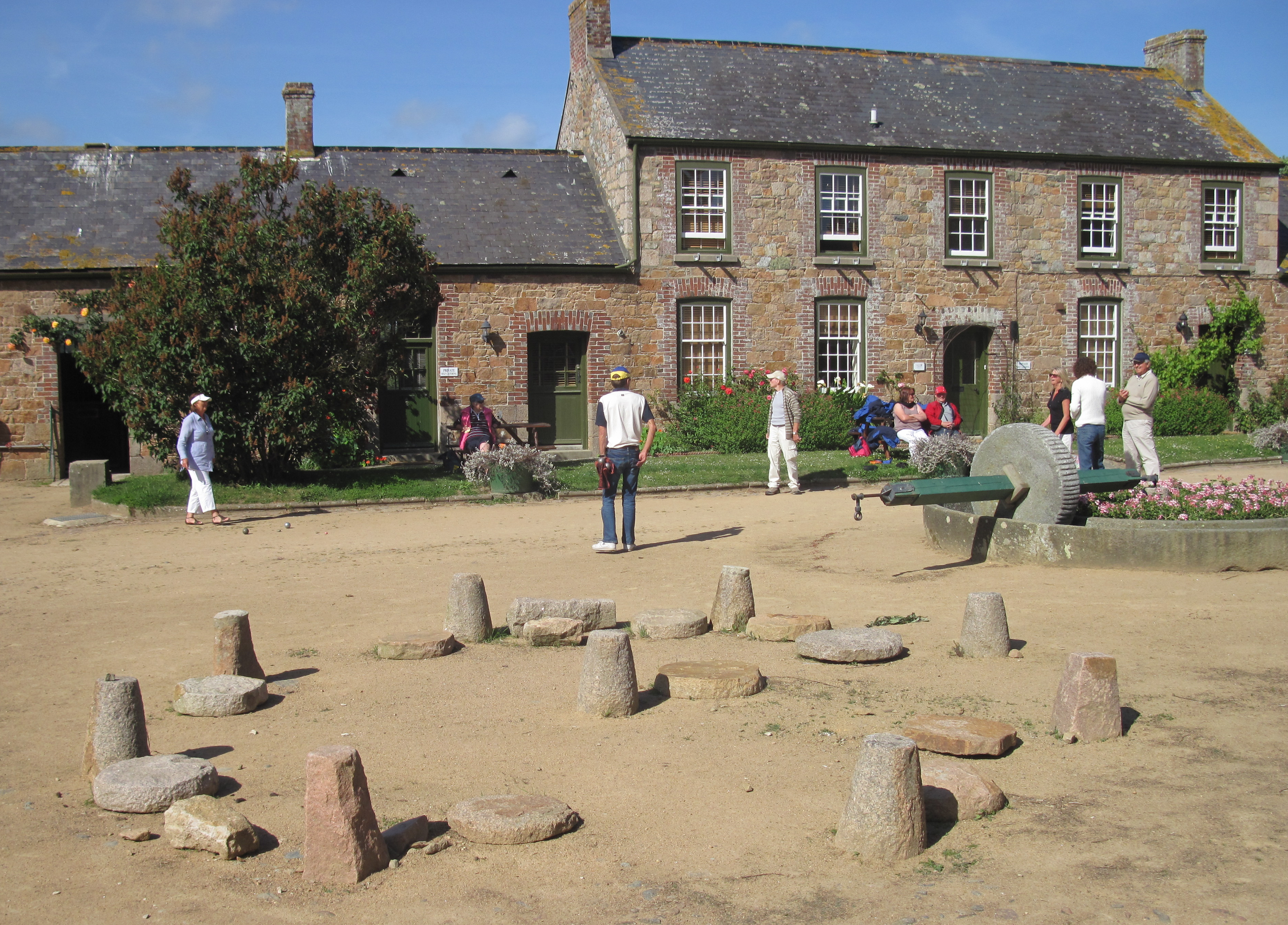 Pétanque friendly games between twin towns Saint Helier and Avranches, played at Samarès Manor, Saint Clement, Jersey, May 2011